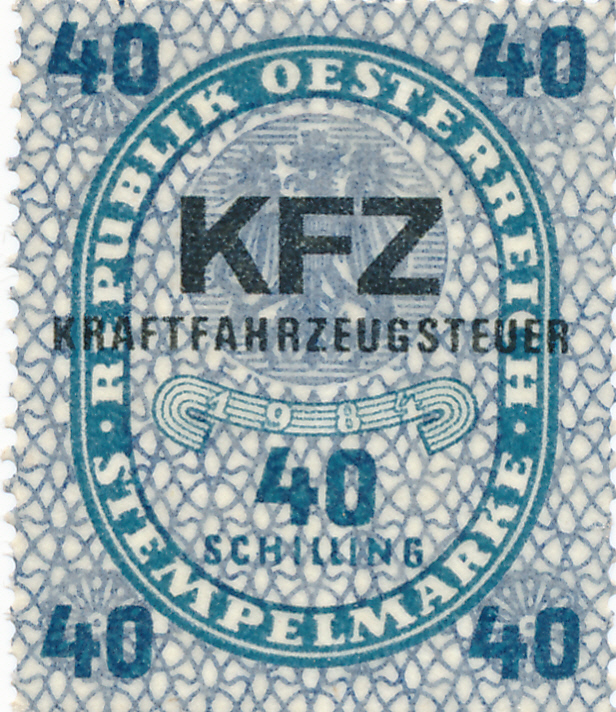 Car Tax